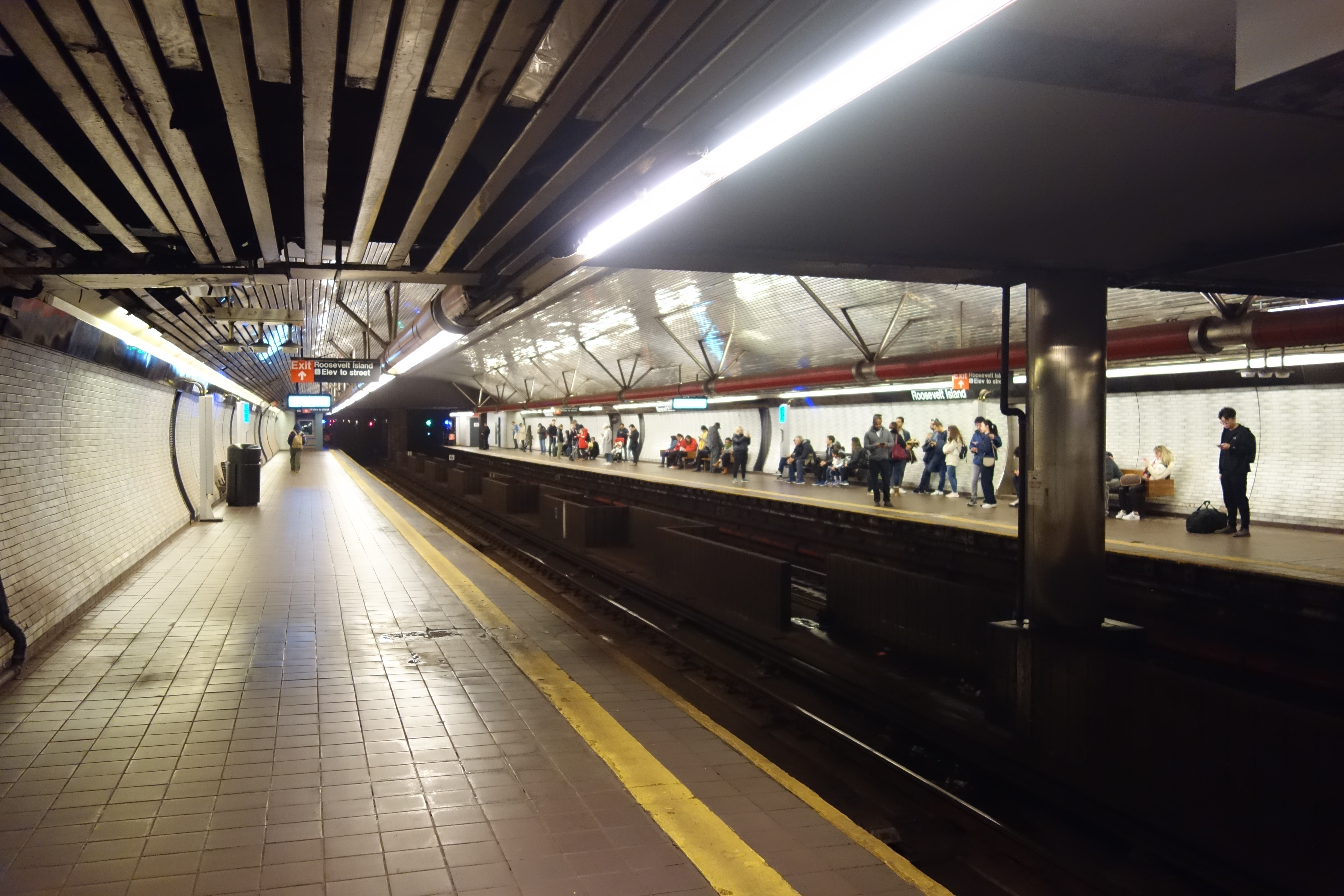 The Queens-bound platform of the Roosevelt Island IND station in Roosevelt Island, Manhattan. Opened in 1989, the station eerily resembles a Washington Metro station, even more so than other modern New York City Subway stations.